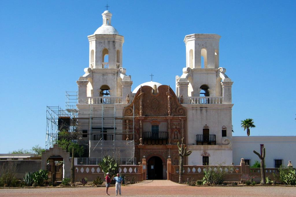 Saint Xavier Del Bac Church, Tucson, Arizona, USA.